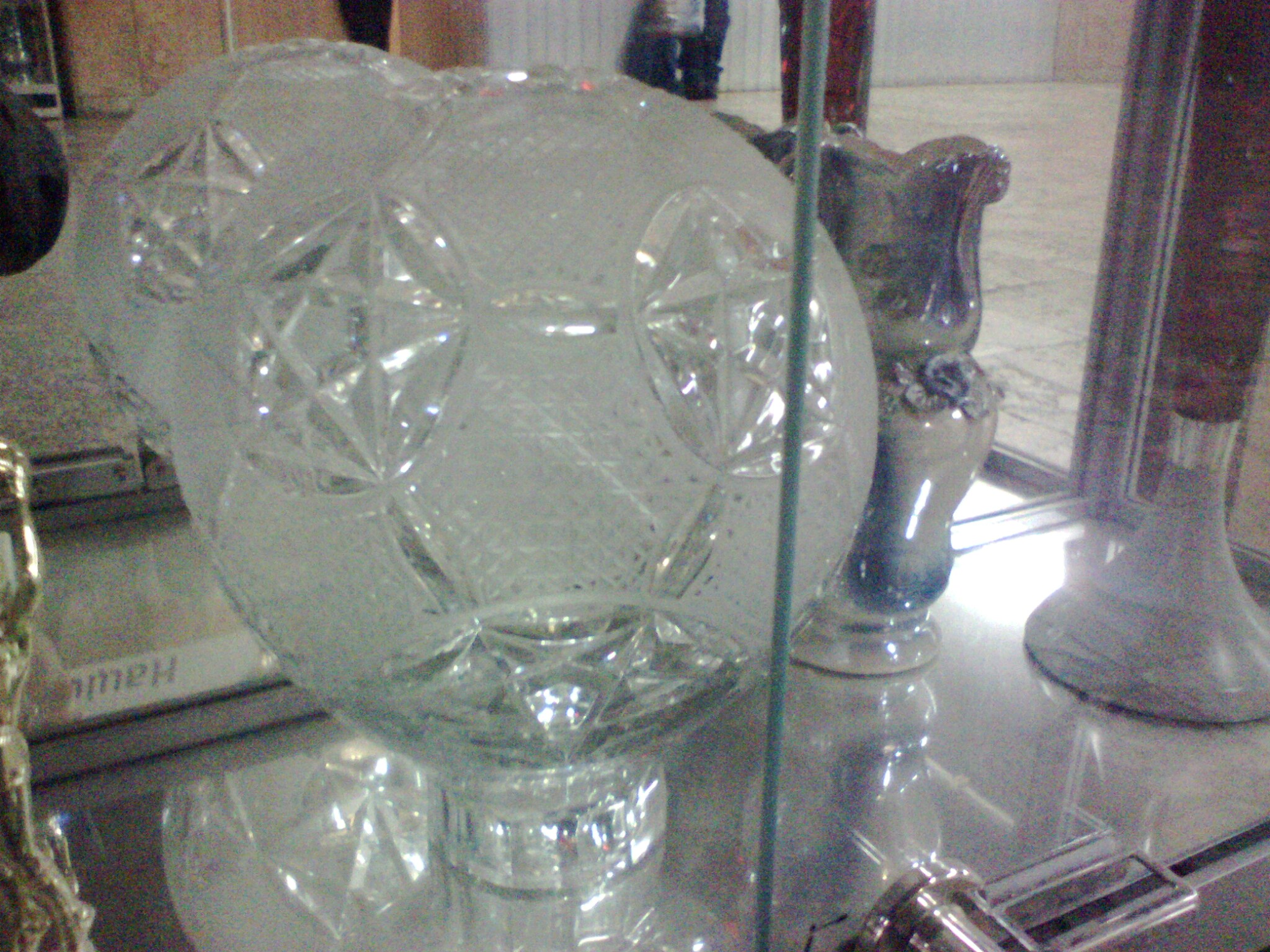 Glass Football - on the prize competitions at spartakide Kharkov Polytechnic Institute. HPI Sports Palace.